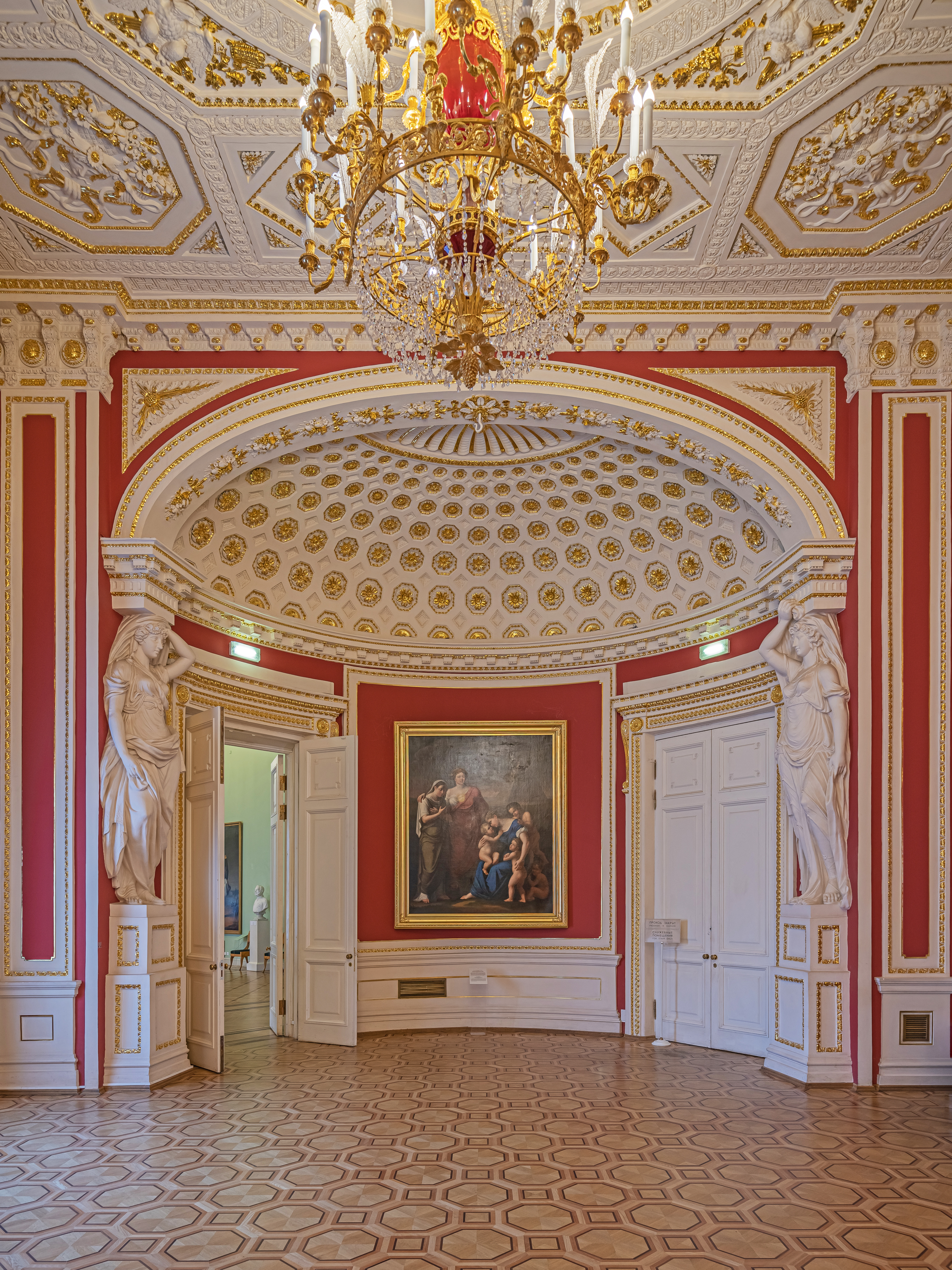 Interiors of St. Michael Castle in Saint Petersburg, Russia